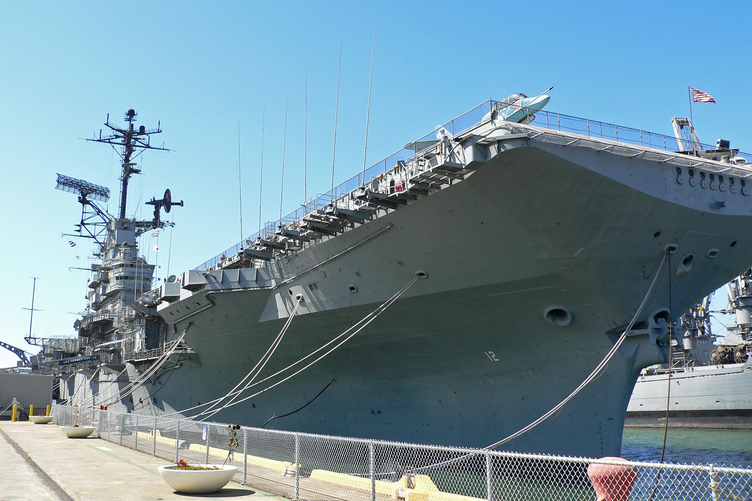 Photo of USS Hornet (CV-12) looking aft along side